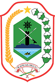 Coat of Arms of Regency Kapuas Hulu